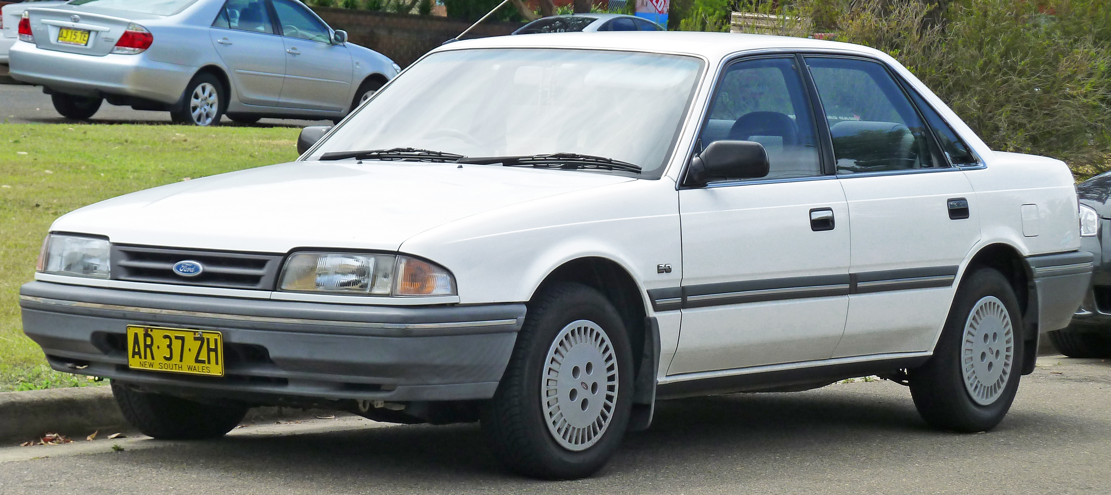 1987–1989 Ford Telstar (AT) GL sedan. Photographed in Sans Souci, New South Wales, Australia.